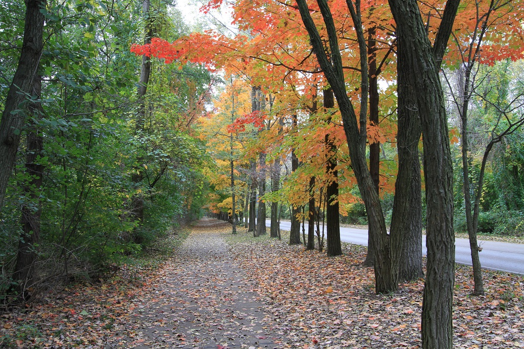 Presque Isle Lake Erie